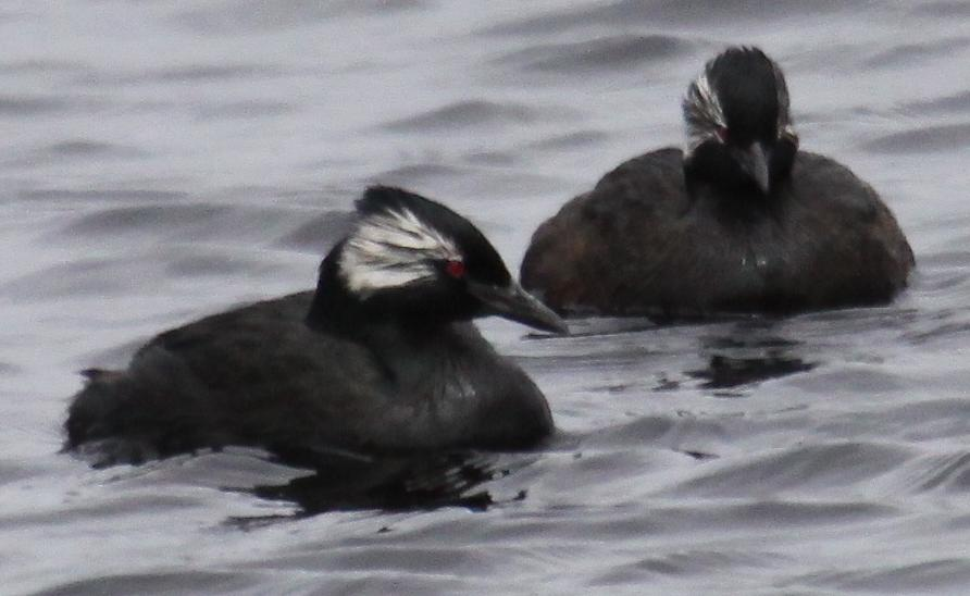 White-tufted Grebe in the Falkland Islands.